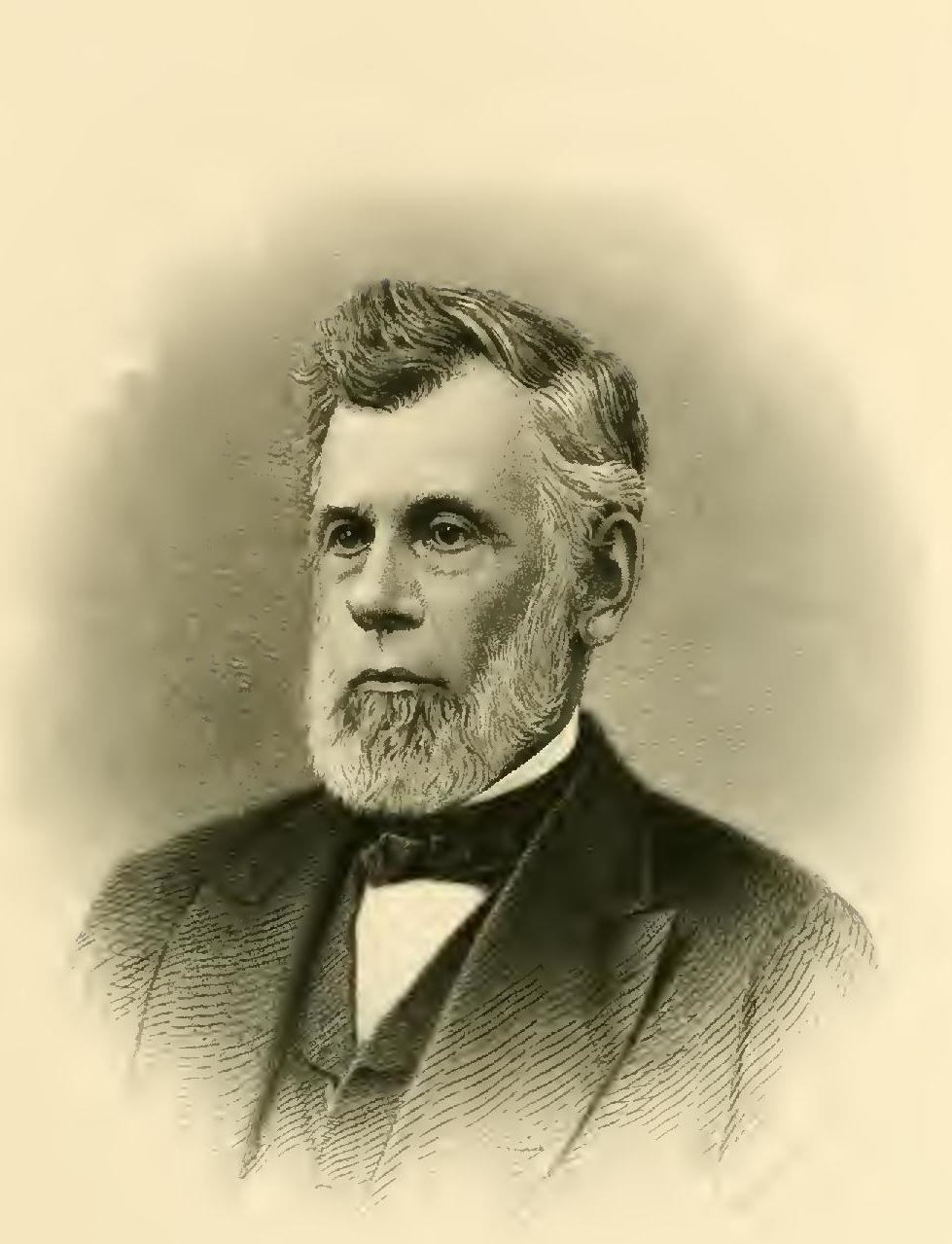 Moody Currier